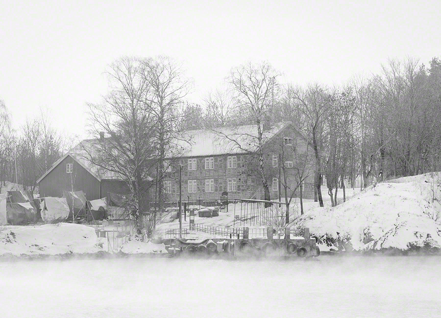 An old military storage facility at Hovedøya island in Oslo. The house was build in 1847 and is the largest outdoor timber framing construction in Norway.